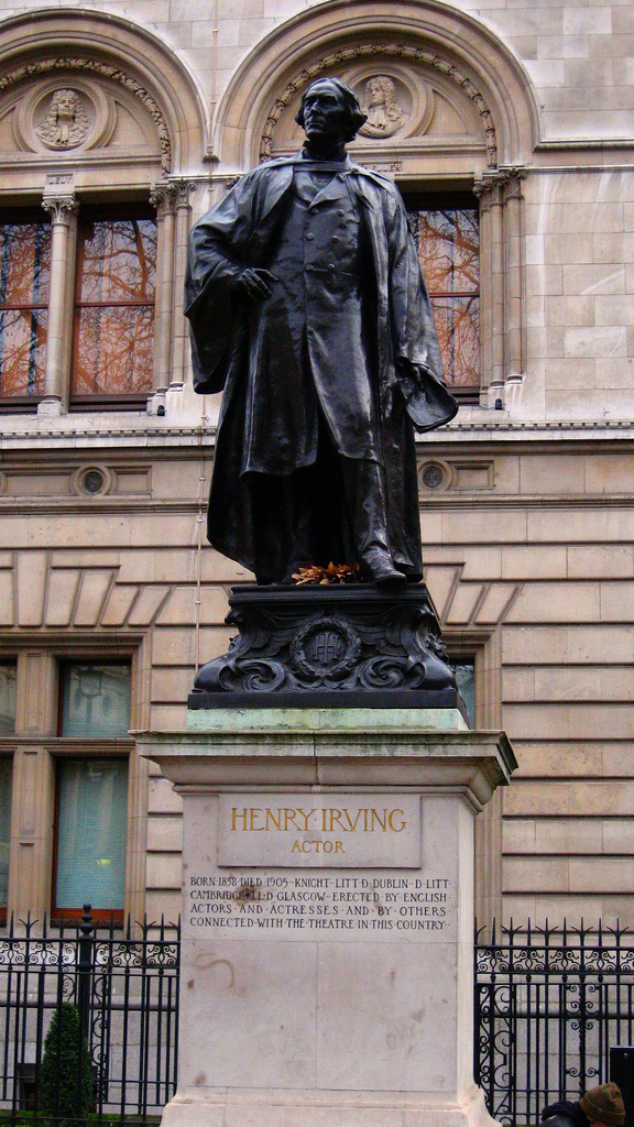 Statue of Henry Irving in London